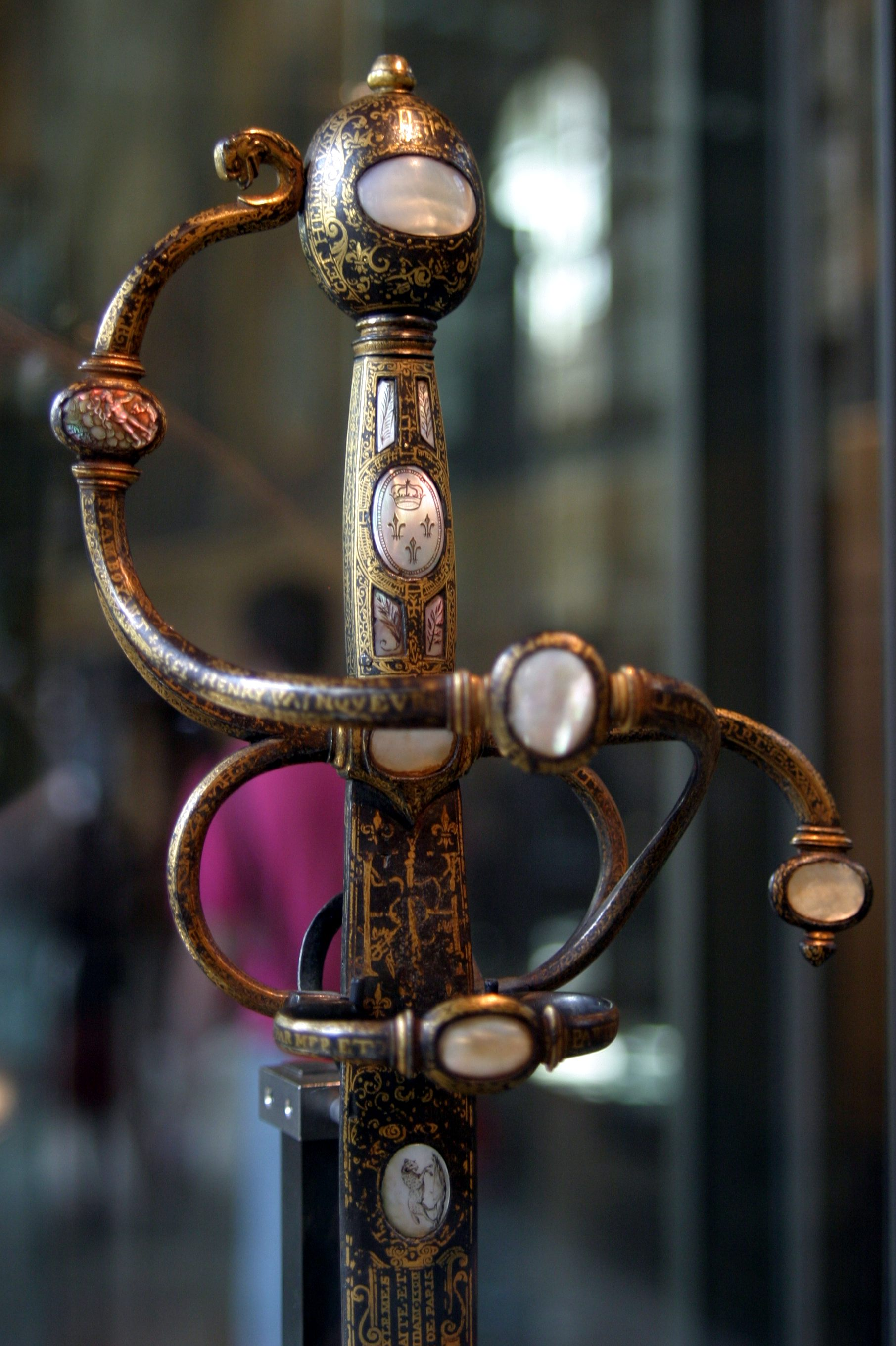 This image was taken at the Musée de l'Armée, Paris.